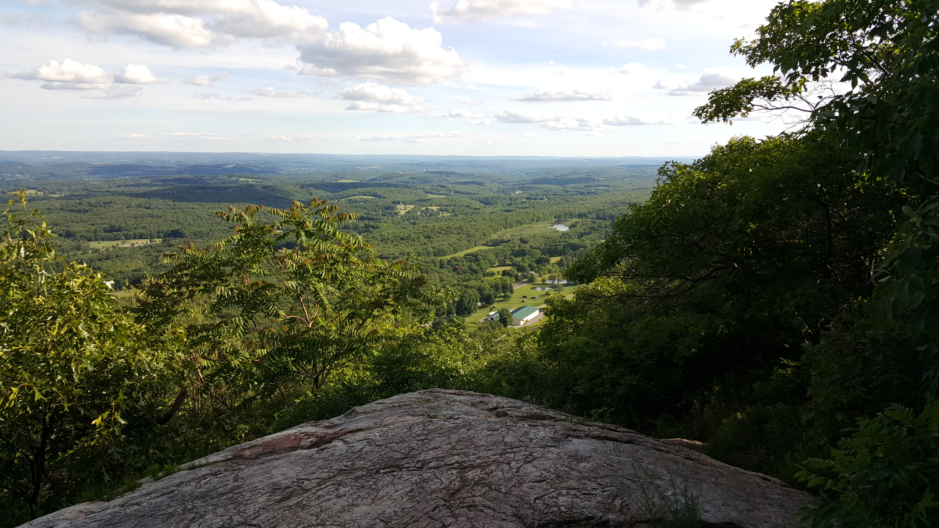 View of the Kittatinny Valley from Sunrise Mountain, New Jersey